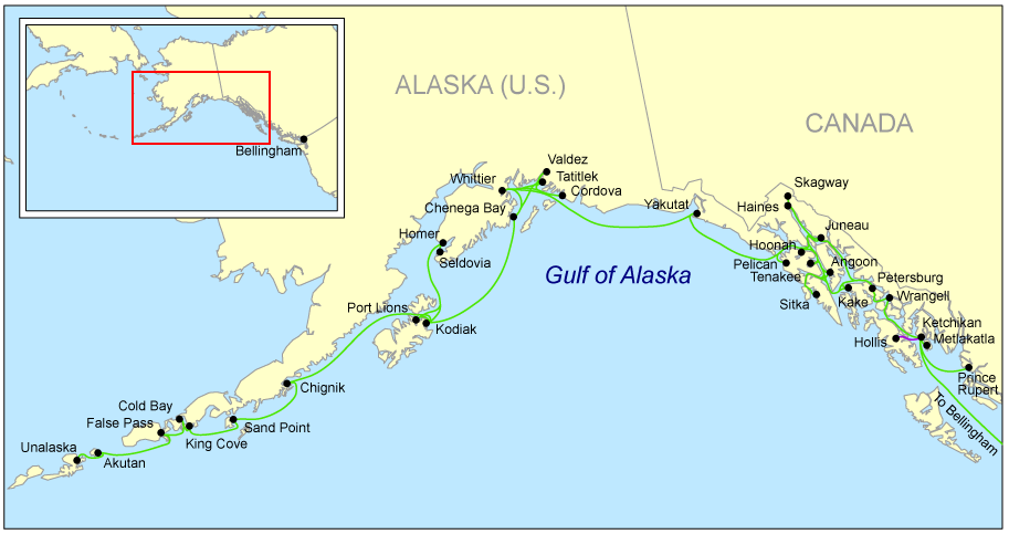 Map of the Alaska Marine Highway System (shown in green) and the Inter-Island Ferry (shown in purple).